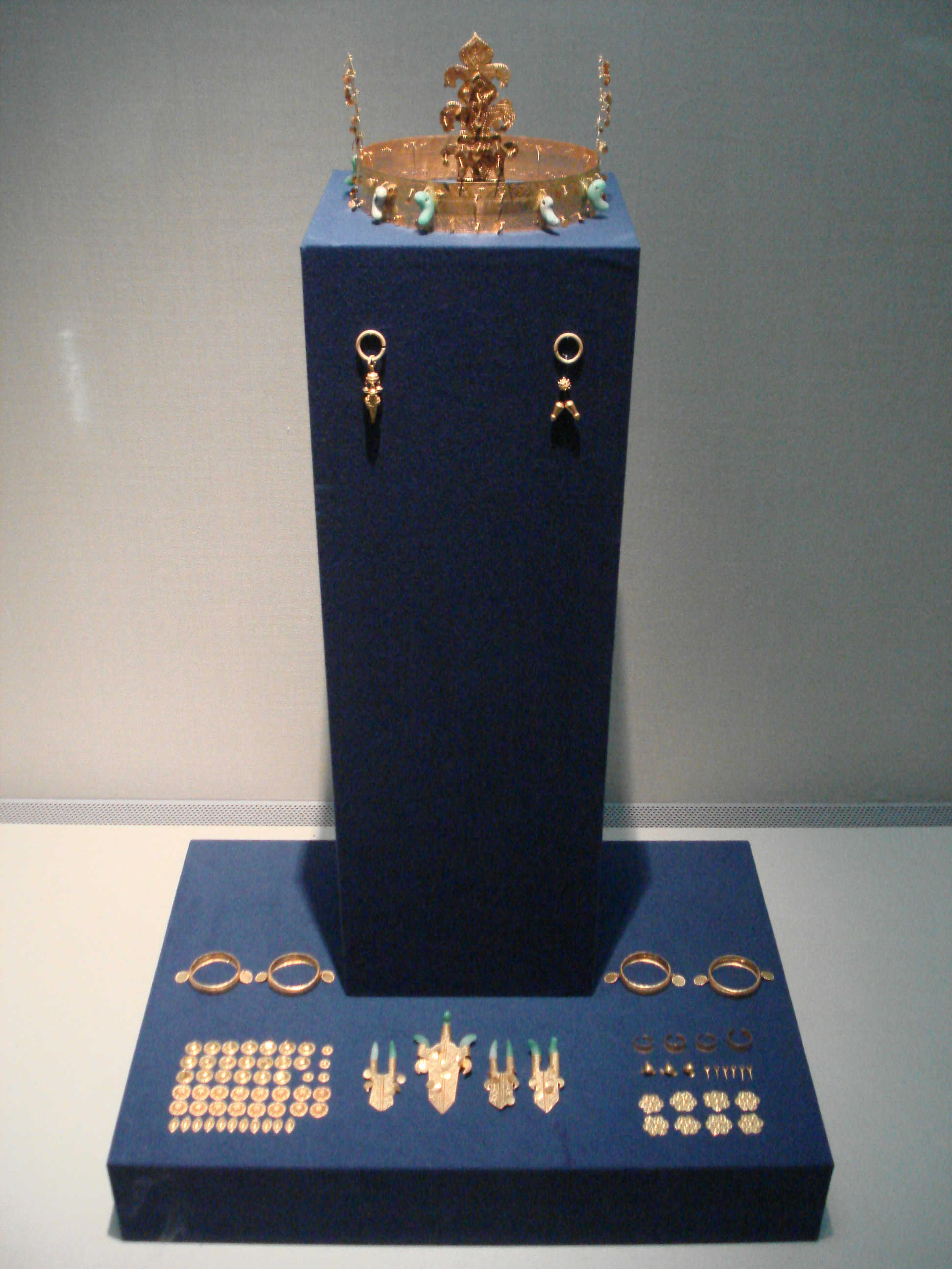 Replica of the National Treasure of South Korea no.138 Gold Crown and Accessories (금관 - 금제꾸미개) Exposed at the Gimhae National Museum